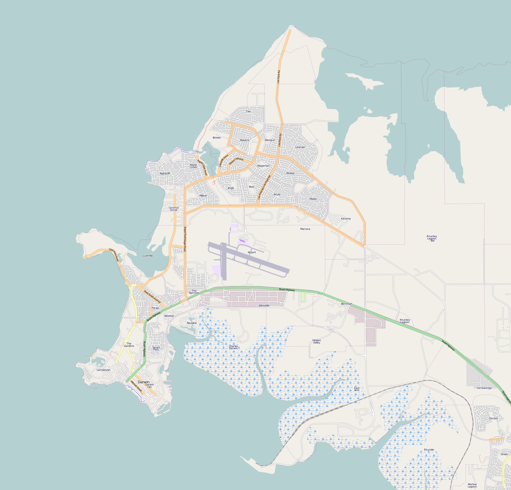 Map of Darwin, Northern Territory, Australia